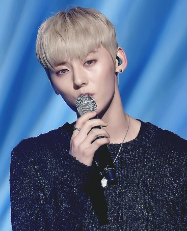 160902 Minhyun